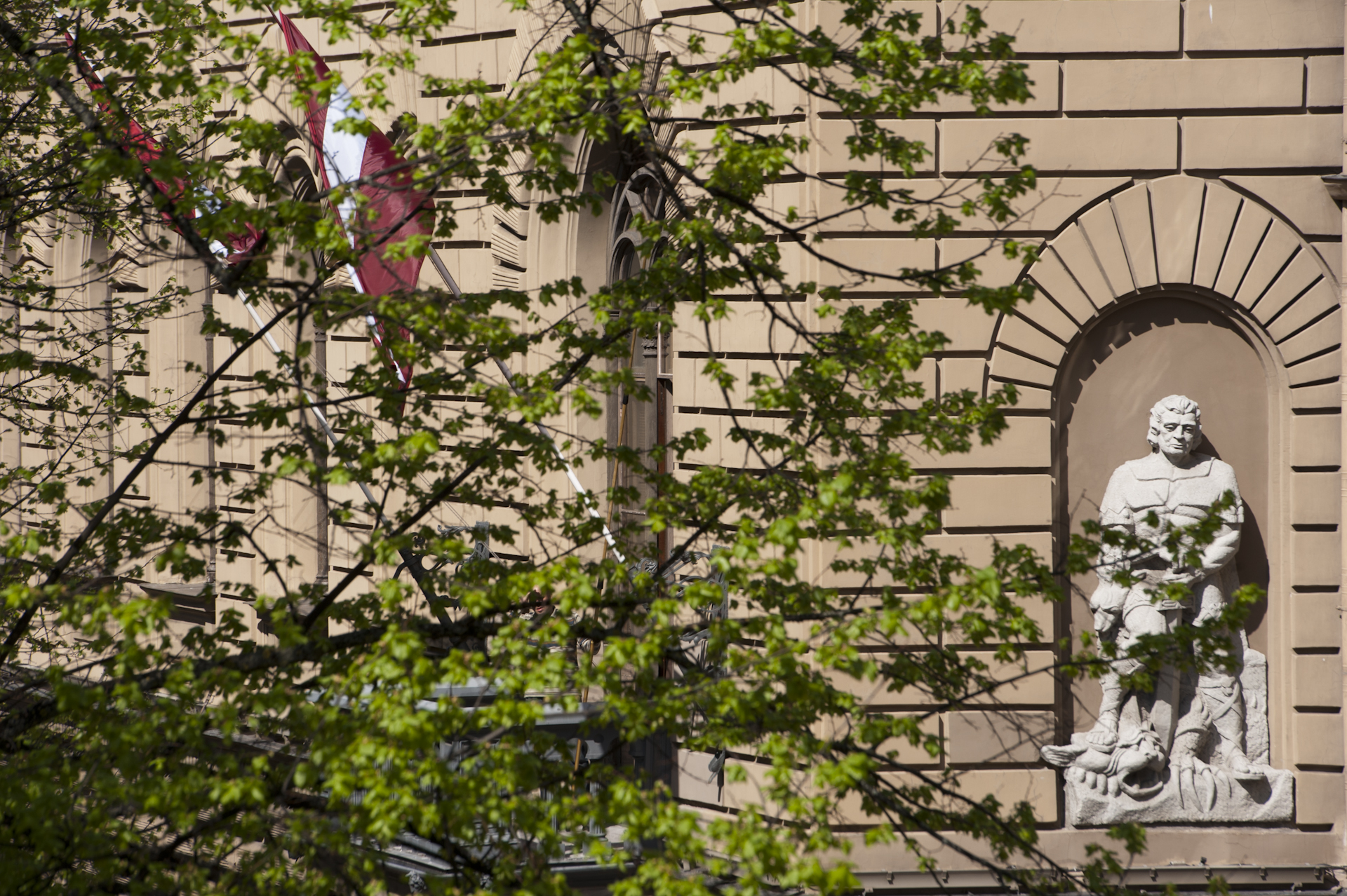 The Saeima building - Niche containing statue of Lāčplēsis